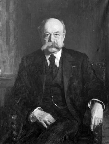 Portret van Stephanus Gerhard Everts (1852-1928)